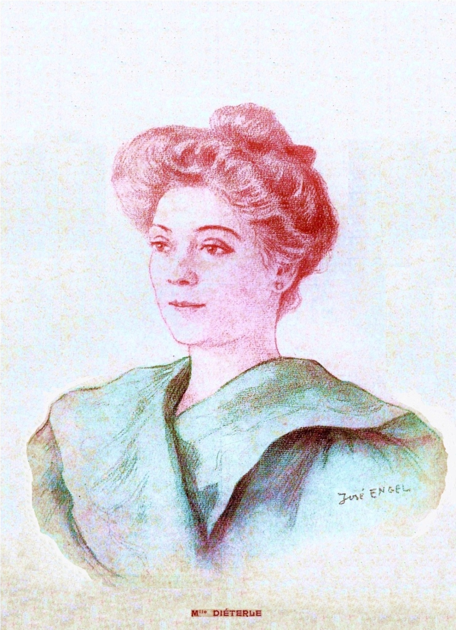 Portrait of the actress Amélie Diéterle by José Engel in 1902. Amélie Diéterle is a French actress born in Strasbourg on 20 February 1871 and died in Cannes on 20 January 1941. She was legitimated in Paris in 1892 by Captain Louis Laurent, Knight of the Legion of Honor. Amélie Diéterle married in Vallauris on 16 June 1930 with André Simon (1877-1965). Amélie Diéterle plays mainly at the Théâtre des Variétés in Paris during the Belle Époque.